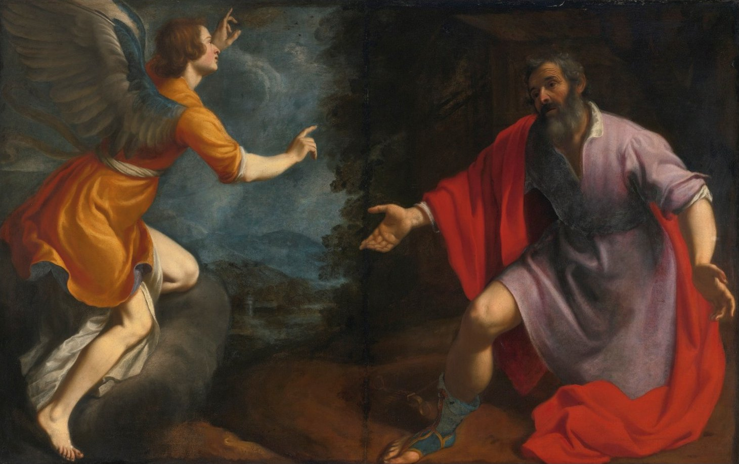 Vision of the Centurion Cornelius by Zanobi Rosi, oil on canvas, 148 by 233 cm.